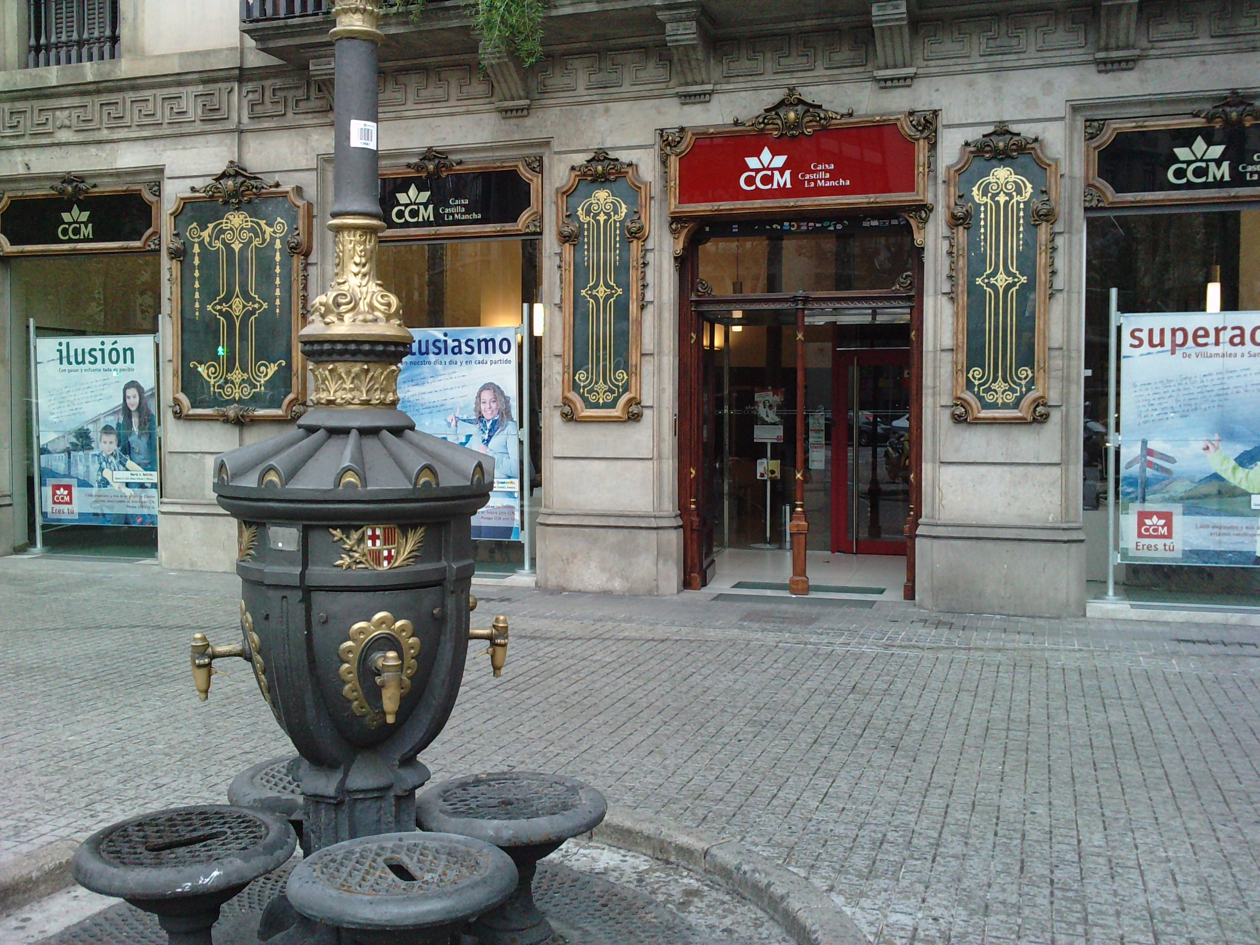 Office of the Banco de Castilla-La Mancha at Barcelona